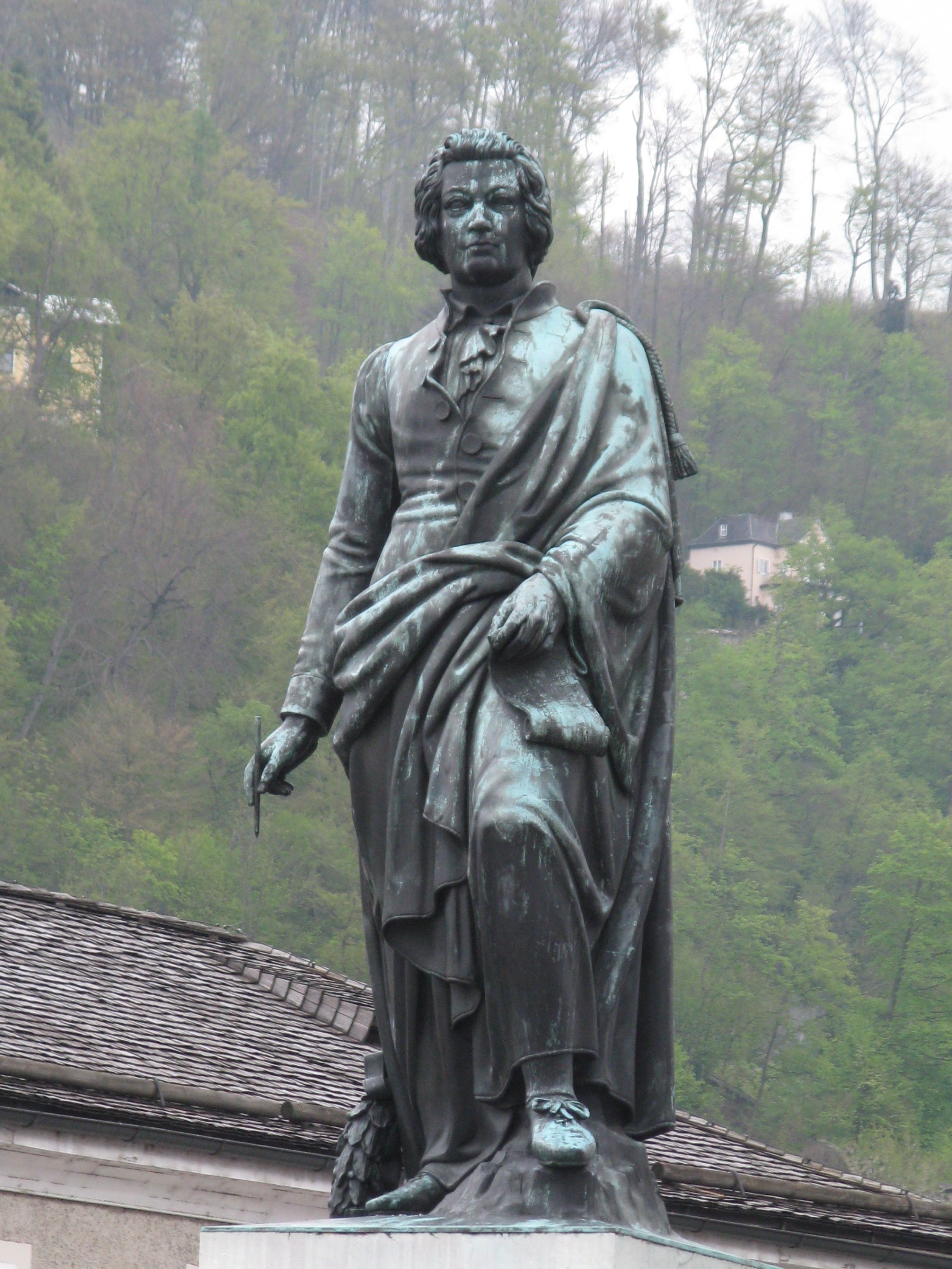 Austria, Salzburg, Mozartplatz